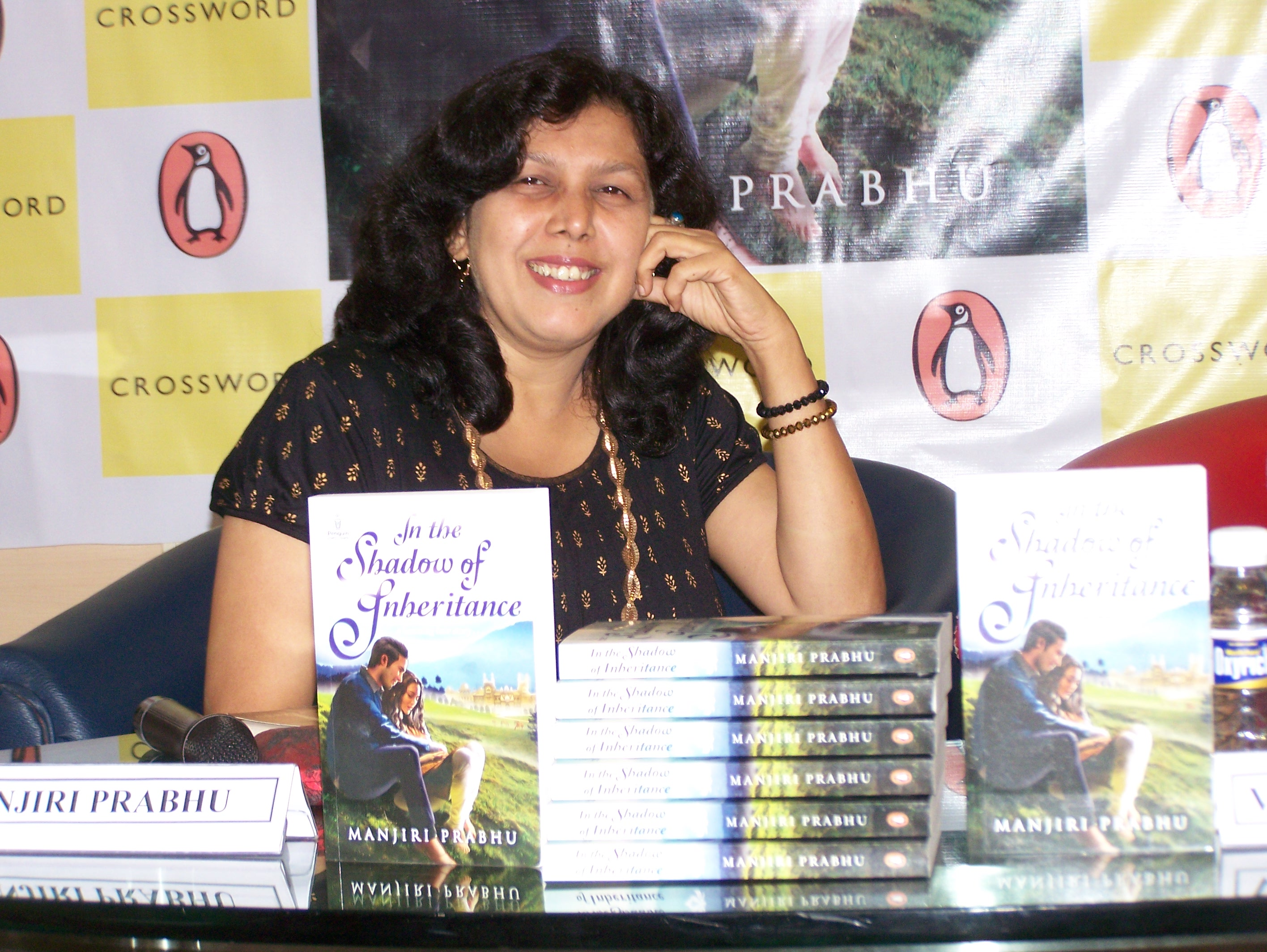 Author Manjiri Prabhu with her novel 'In the Shadow of Inheritance